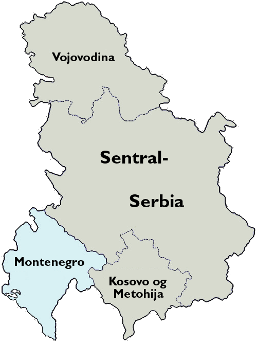 Map of Serbia and Montenegro.